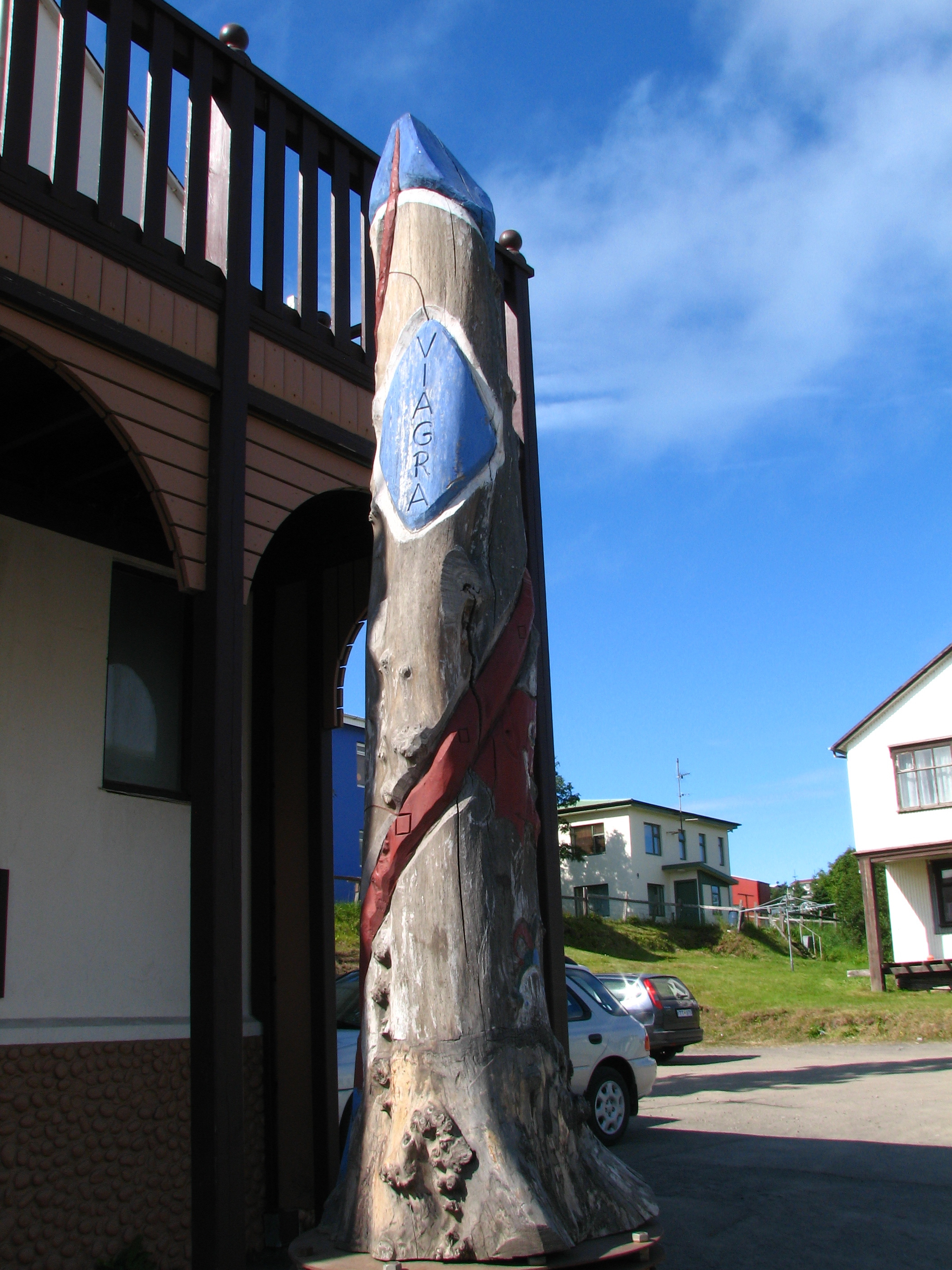 Icelandic Phallological Museum, H�sav�k, viagra, road trip, 2008-08 -- Iceland 1st Anniversary Trip